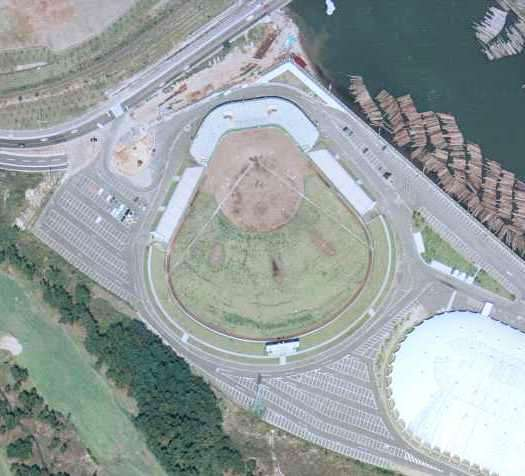 Akita Prefectural Baseball Stadium